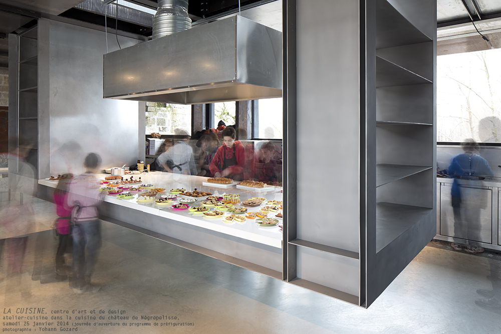 LA CUISINE, art and design center Kitchen's workshop in the Nègrepelisse castle kitchen (prefiguration program's opening day) Photographer : Yohann Gozard